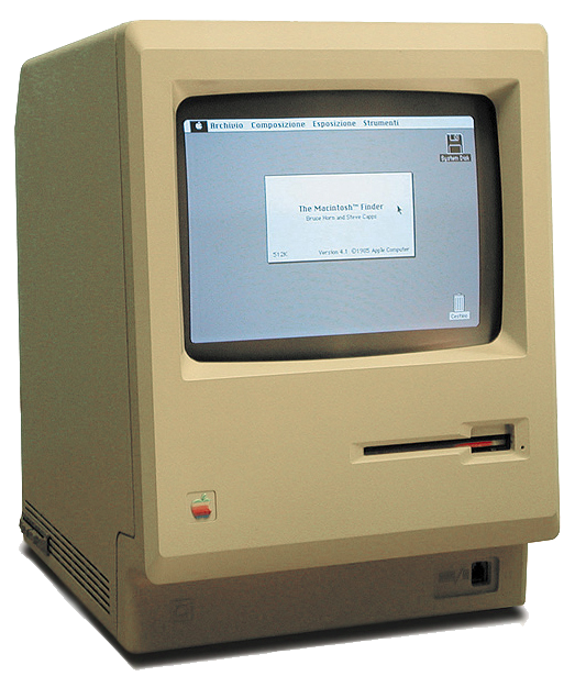 A Macintosh 128K (that has apparently been upgraded to 512K, see window) running Finder 4.1 American transparent background. Note the add-on "Programmer's Switch" on the lower-left corner of the case, which includes reset and interrupt buttons. Based on Image:Macintosh 128k No Text.jpg which was edited by TDS from a version found on the Wikimedia Commons to remove text that obstructed the photograph. (Image:Macintosh 128k.jpg). It is desirable that the current image be recreated in jpg from that source. The original photograph is from the All About Apple Museum, which also shows the back of the machine, confirming it is the original 128K model (Macintosh 128k. All About Apple Museum. Archived from the original on 2004-01-01.). This is an image that has been released into the GFDL. Because of the free license, it is currently the logo of WikiProject Macintosh.